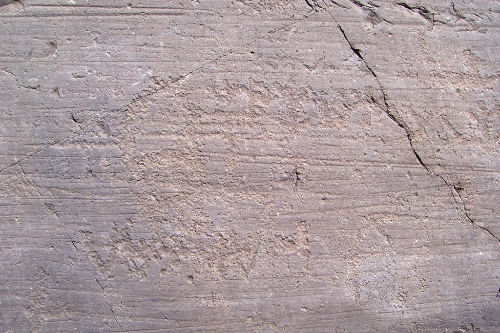 Camunian alphabet and feet-figure. Foppe Area, R. 6, Rock Art Natural Reserve of Ceto, Cimbergo and Paspardo. Nadro, Rock Drawings in Valle Camonica.